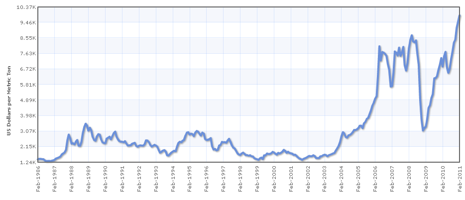 A graph of the History of Copper prices on the LME, from 2003-2008. Prices are in US Dollars per metric tonne.